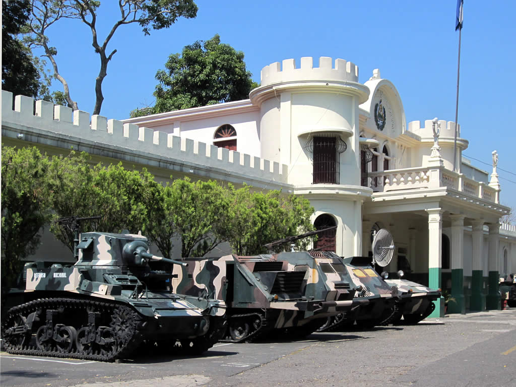 El Zapote Barracks (1895) currently houses El Salvador's Military Museum.